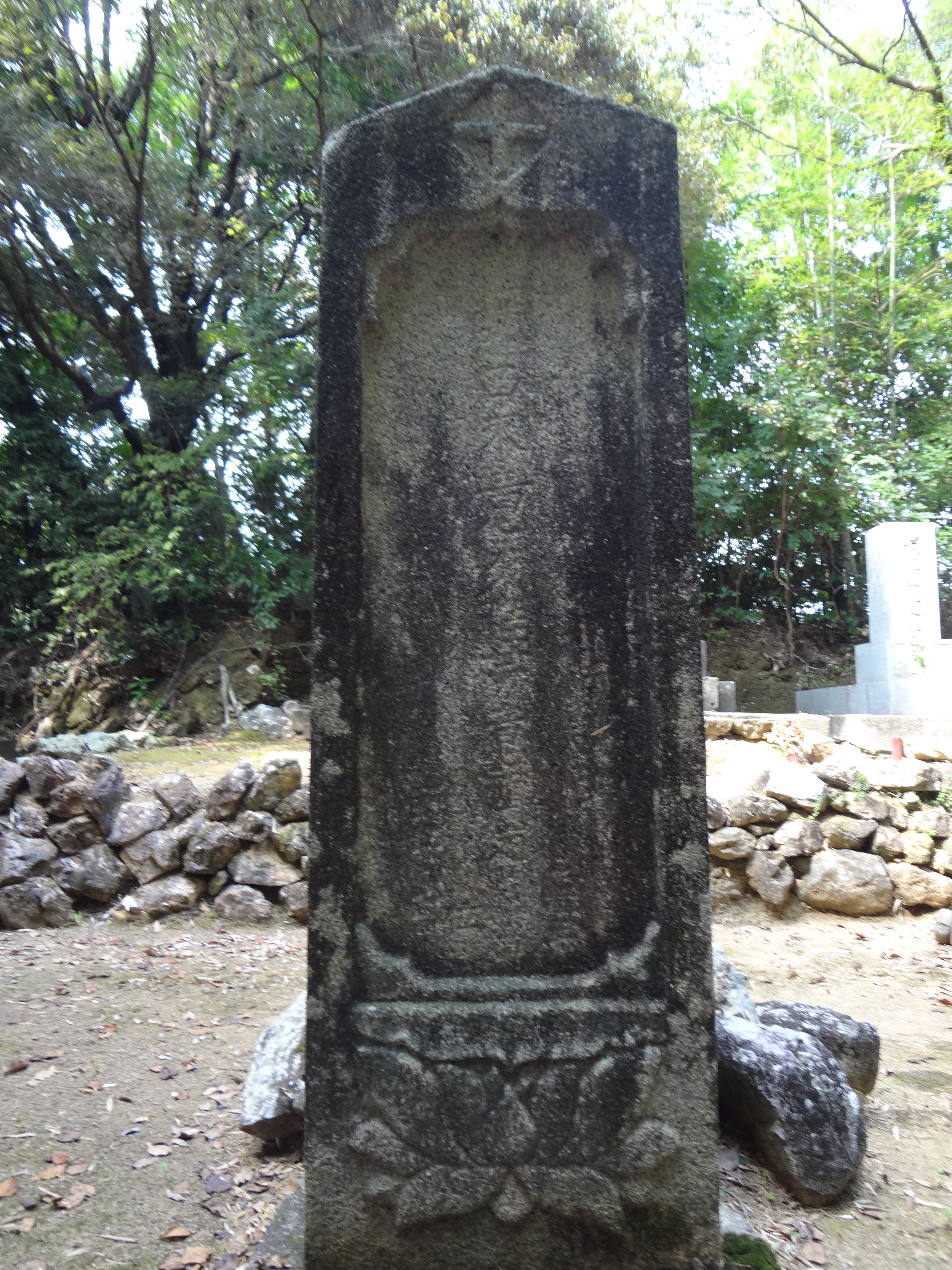 The tomb of INUI(ITAGAKI) MASANOBU ( -1608). Grandchild of ITAGAKI NOBUKATA. 7th Great-Grandfather of ITAGAKI TAISUKE.